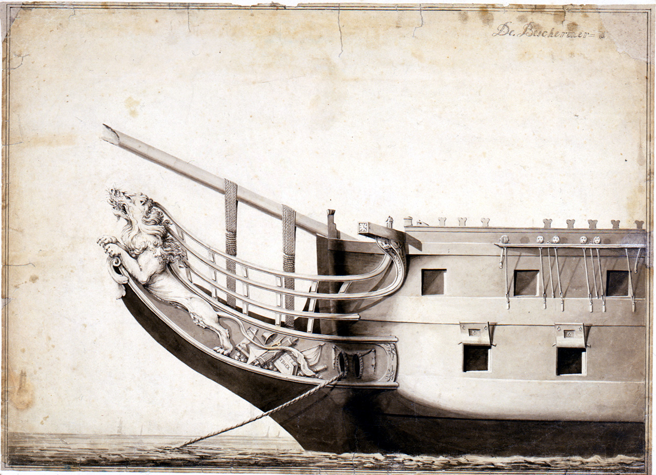 Figurehead of the Dutch warship Beschermer.